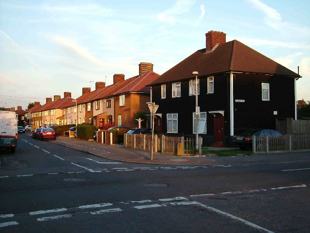 “Homes Fit for Heroes” Dagenham. This is the junction of Rogers Rd and Holgate road Dagenham. The picture is looking down Holgate Road. These are typical examples of the housing on the Becontree Estate. Initially 25000 homes were built by the London County Council between 1921 and 1934. These homes fit for the heroes of WW1 had all mod cons gas, water and electricity with inside toilets and bathrooms. A further 2000 homes were built before WW2. The Becontree estate was the biggest council estate in the world. Of course much of it has been sold off. The houses on the estate were almost universally pebble dashed to cover up inferior bricks. You can spot the houses still in public ownership in this particular area of the estate as the council has taken to weatherboarding them...(edited by Dagenham resident 2012) This is not true about the weather boarding. The wooden houses seen in the forfront of the picture were the first houses to be built on the estate, they were erected as road markers and designed to mimic that of sweedish chalets. Originaly homes for the overseers,managers and formen of the building project, they were intended to be demolished once the estate was finished, however for reasons unknown it was decided that they should stay. Known as the 'wooden houses' by the residents of the estate. they are the oldest houses of the Becontree estate.